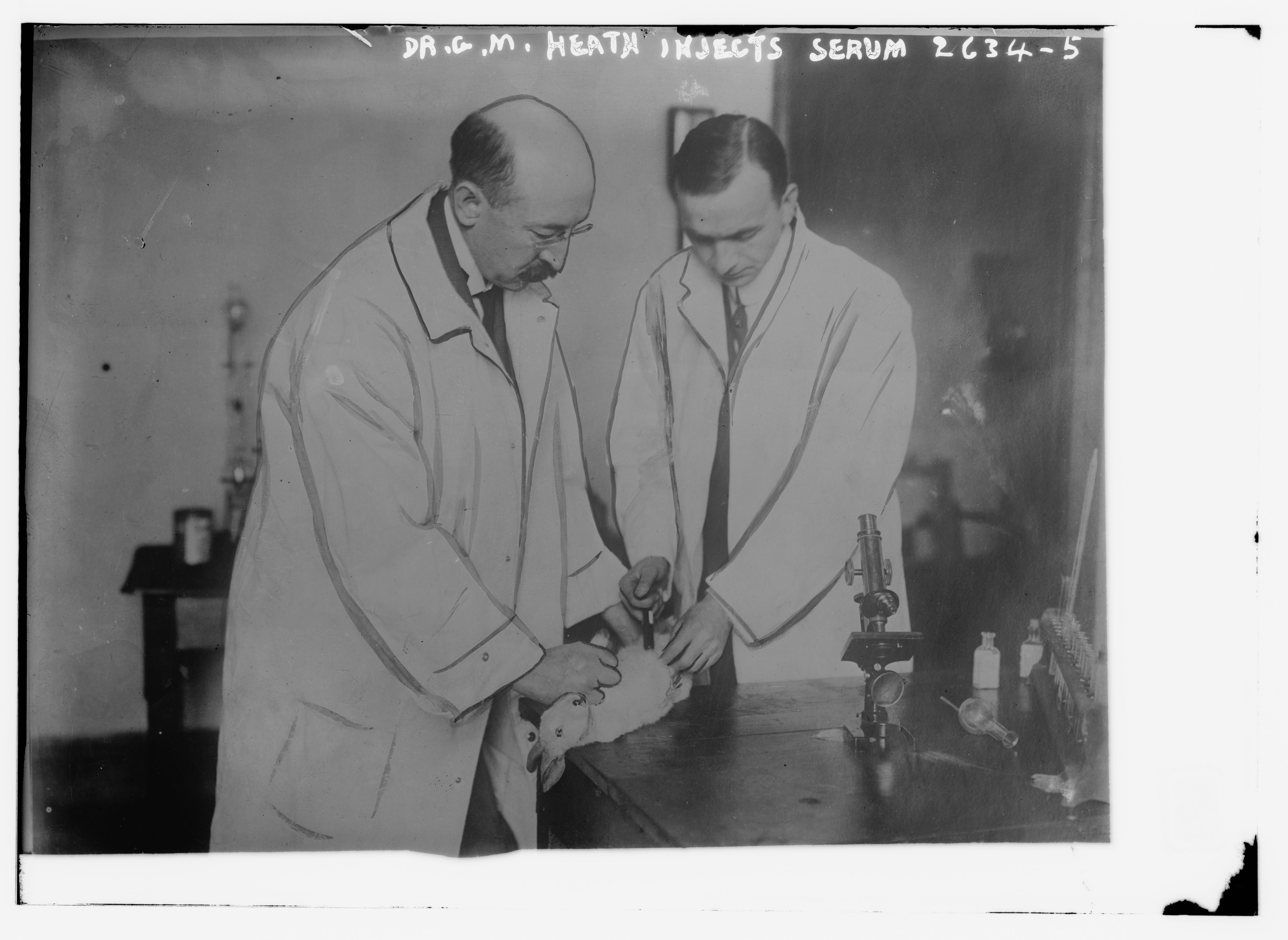 Title: Dr. Heath injects serum [rabbit] Abstract/medium: 1 negative : glass ; 5 x 7 in. or smaller.